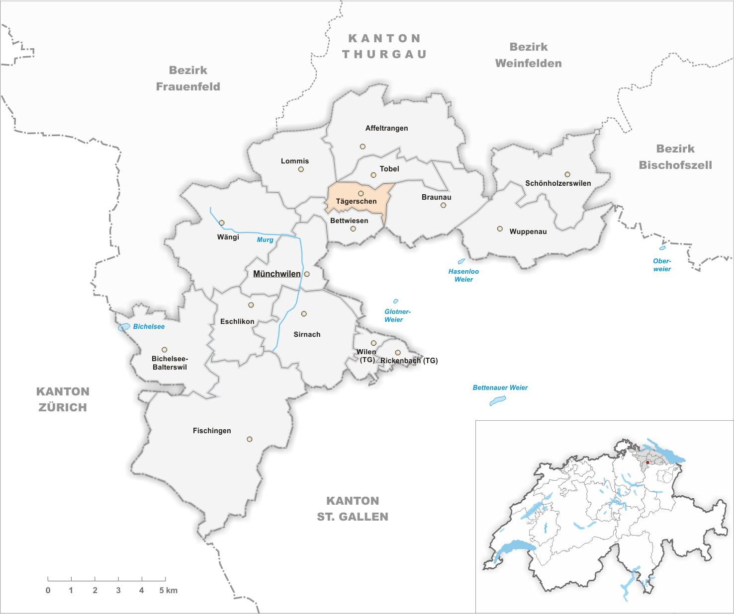 Municipality Tägerschen